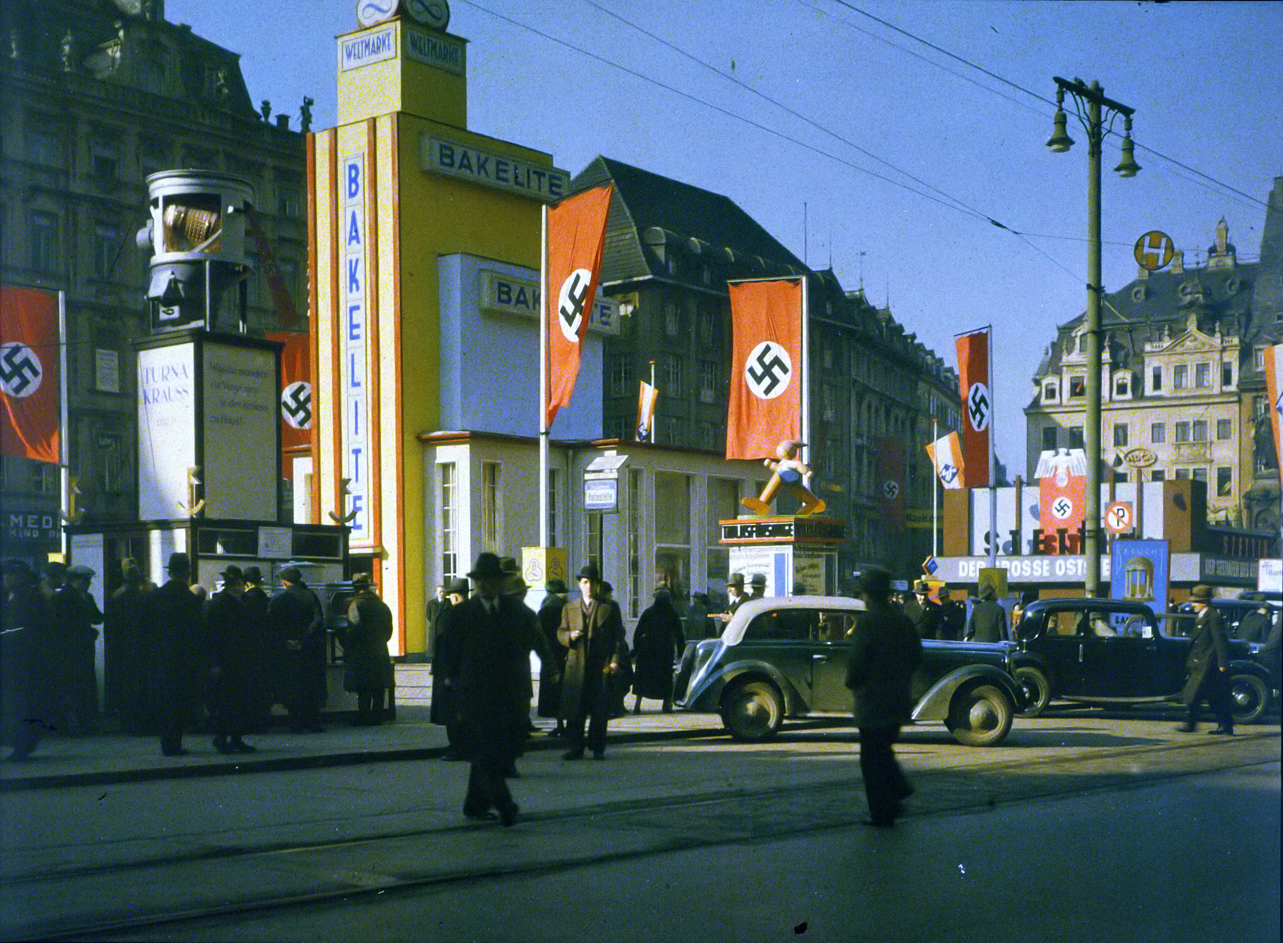 Agfa-Farbenplatte (9 cm by 12 cm) glass plate photograph of a trade fair in the Leipzig market place (Marktplatz) in March 1937 by Dr Kurt von Holleben.